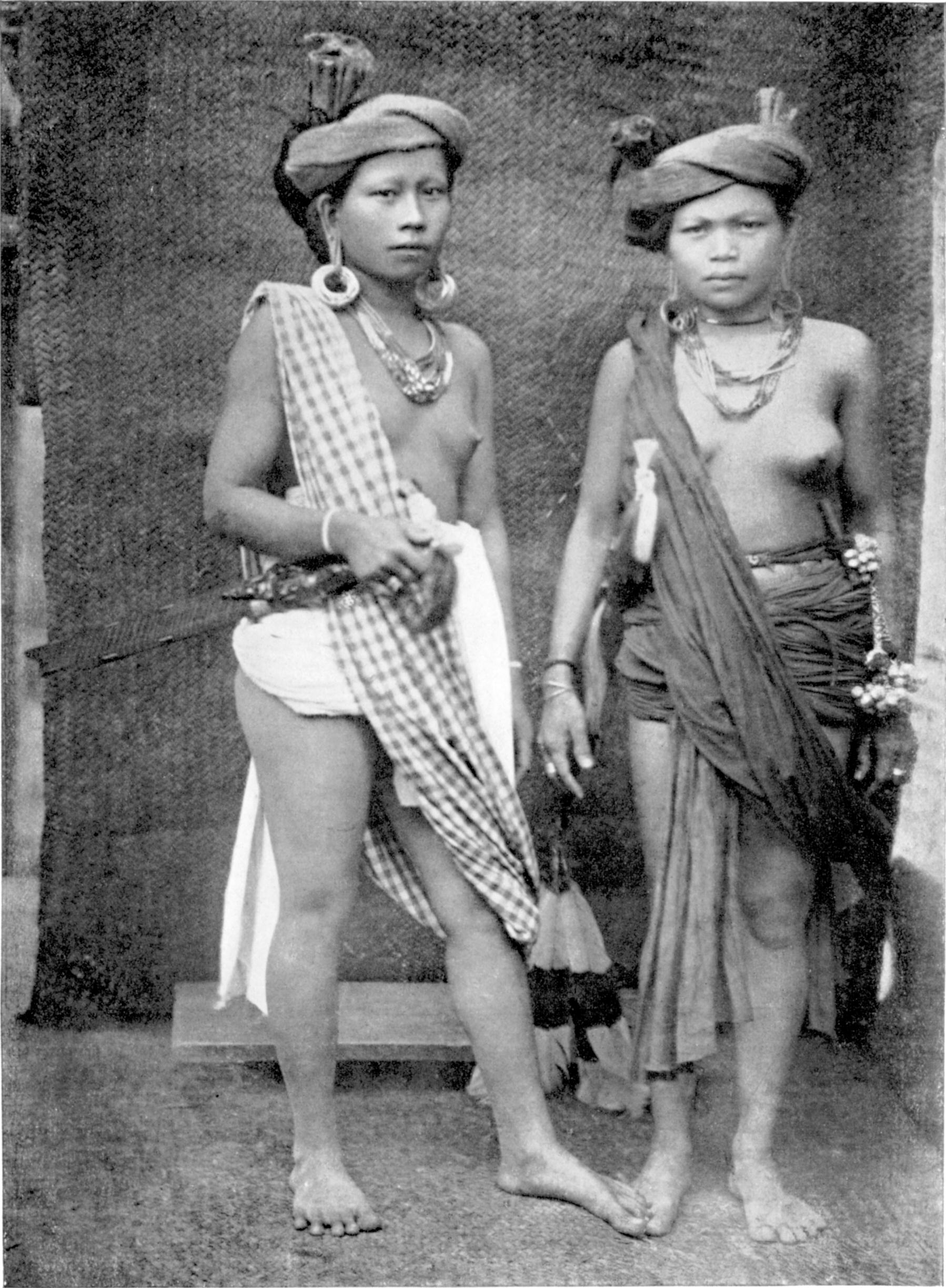 Klemantanen women dressed for Harvest festival. The women dress in men's attire at the Harvest Festival. There is general merriment and all kinds of jokes are played, one of which is slapping men on the face with a sooty mixture, after which they run away; chased by the men, who retaliate.